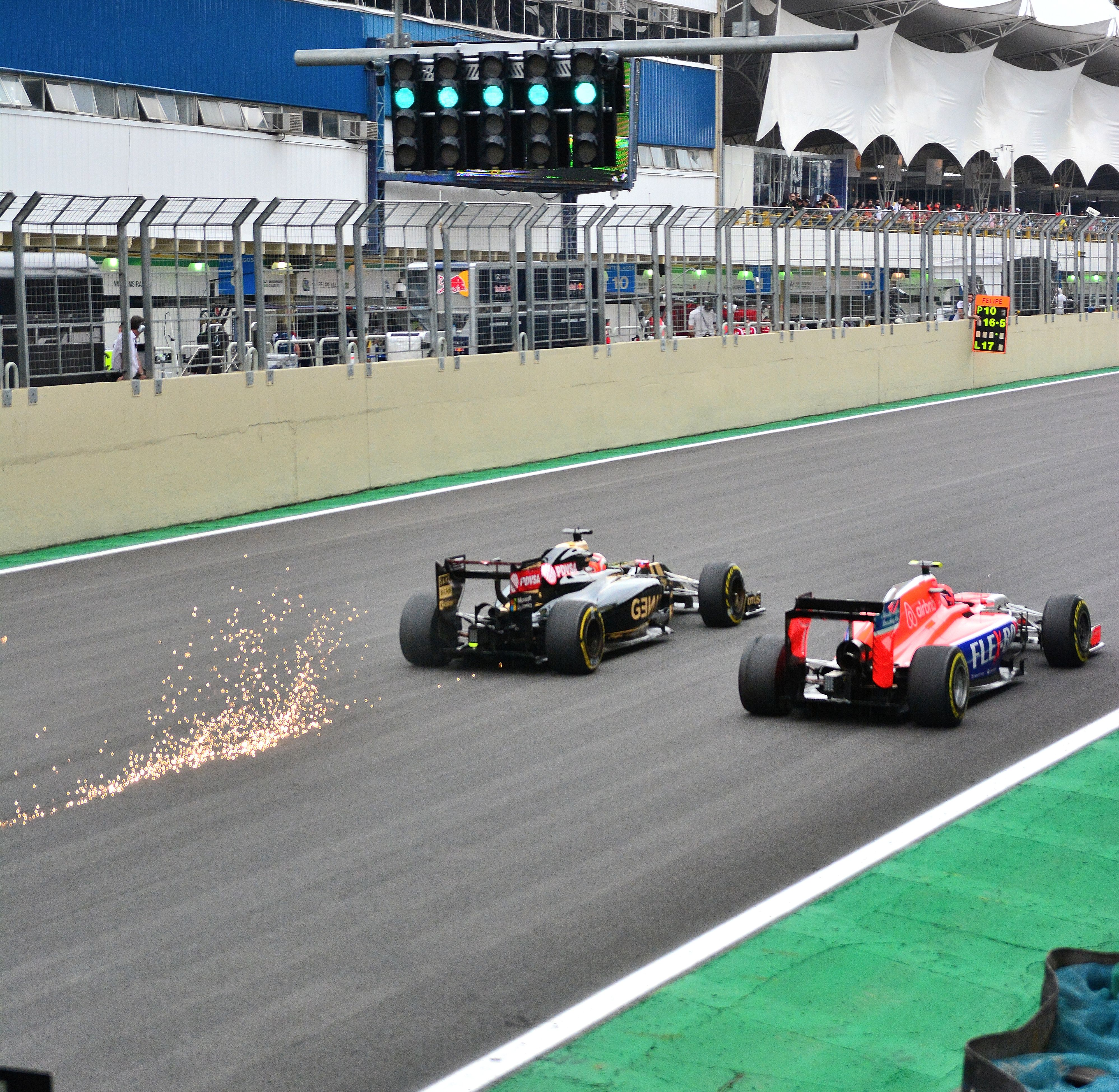 Lotus and Manor at the 2015 Brazilian Grand Prix